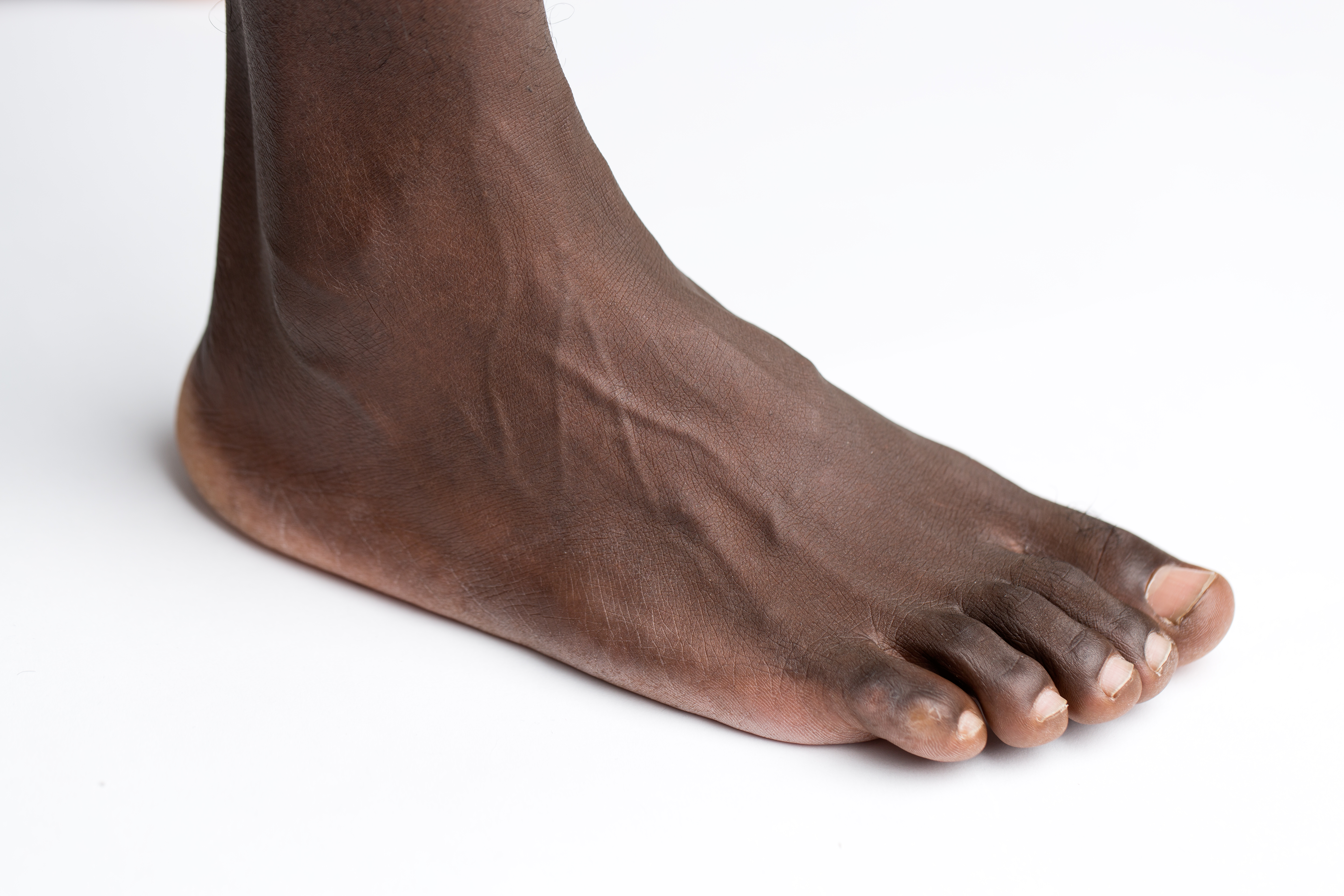 Human foot (right)